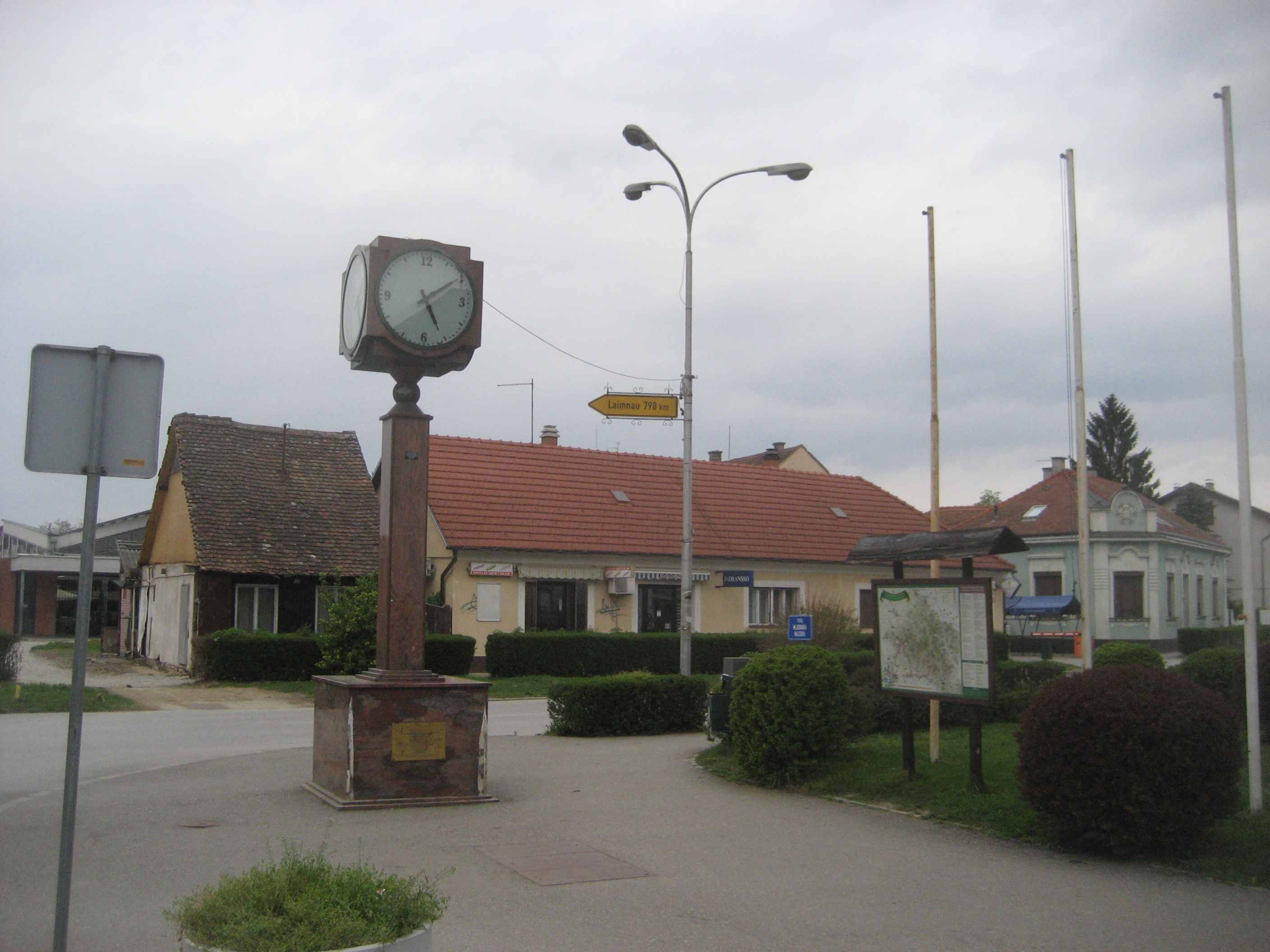 Ivanic Grad, Croatia